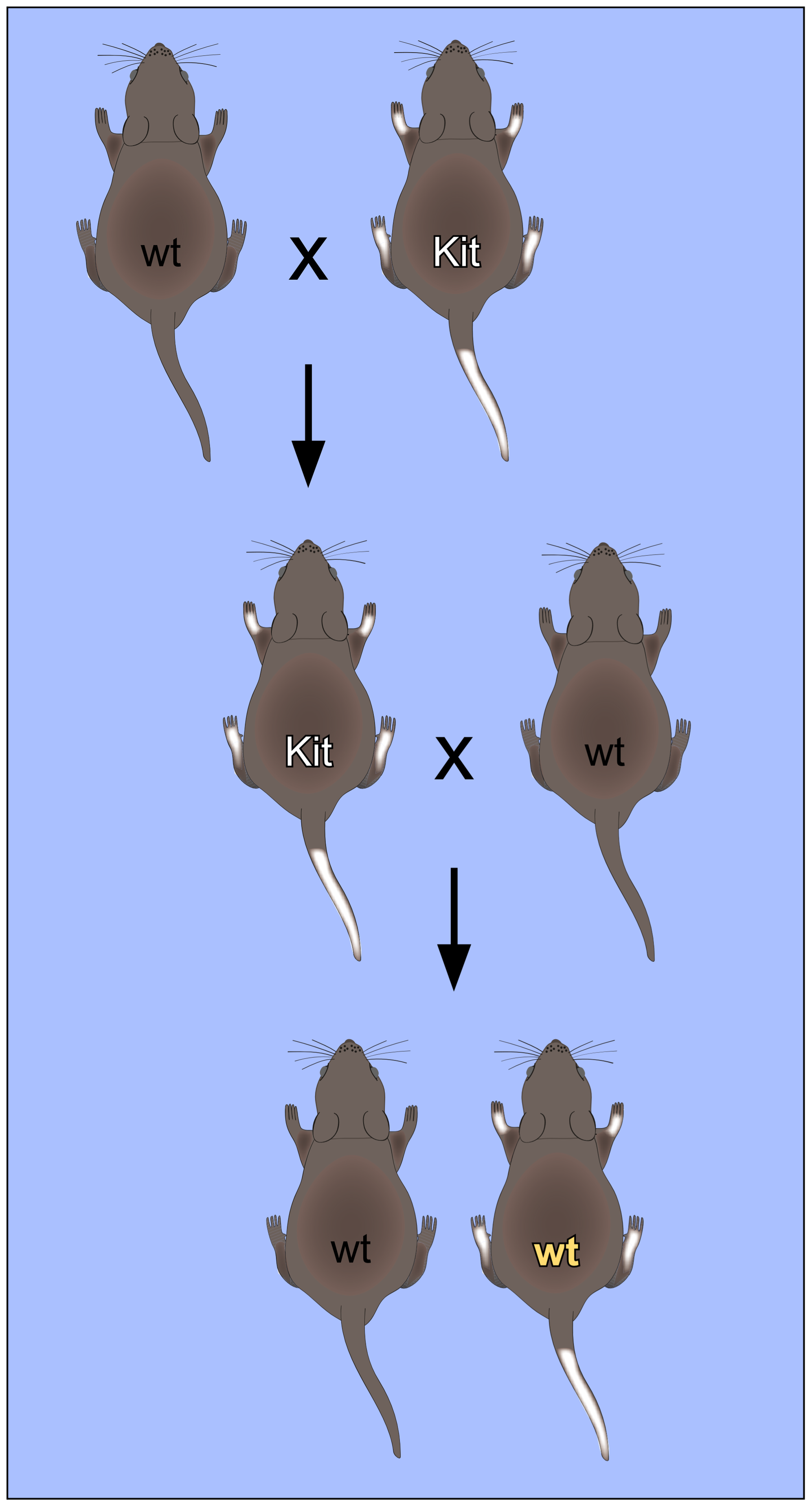 The “white-spotted” Kittm1Alf/+ mouse phenotype provides an important paradigm for RNA-mediated non-Mendelian inheritance. Mating of heterozygous Kittm1Alf/+ (Kit) mice with wild-type (wt) mice results in Kittm1Alf/+ (Kit) offspring with characteristic white tails and feet. When these mice are again mated with wild-type mice, a fraction of the offspring retains the “white-spotted” phenotype, even with a wild-type genotype. This phenotype could also be induced by microinjection of RNA into fertilized oocytes, which suggests that RNA plays an important role in the mechanism of inheritance.